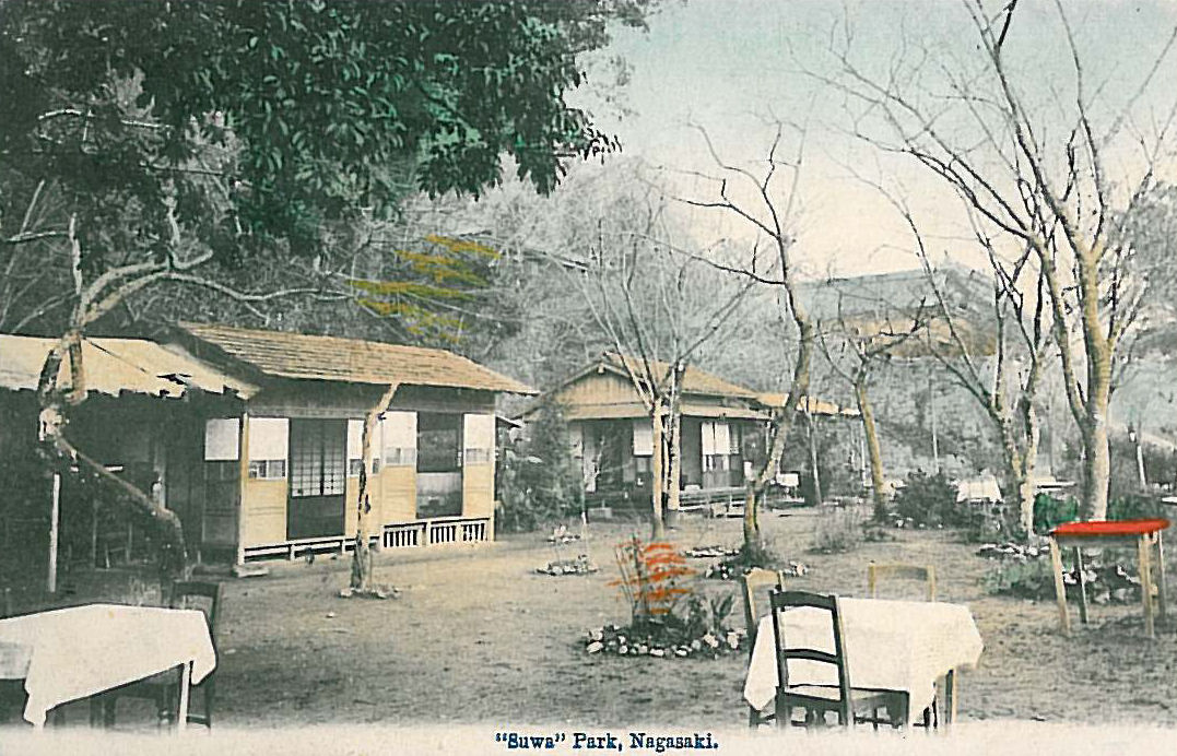 historical view of Nagasaki